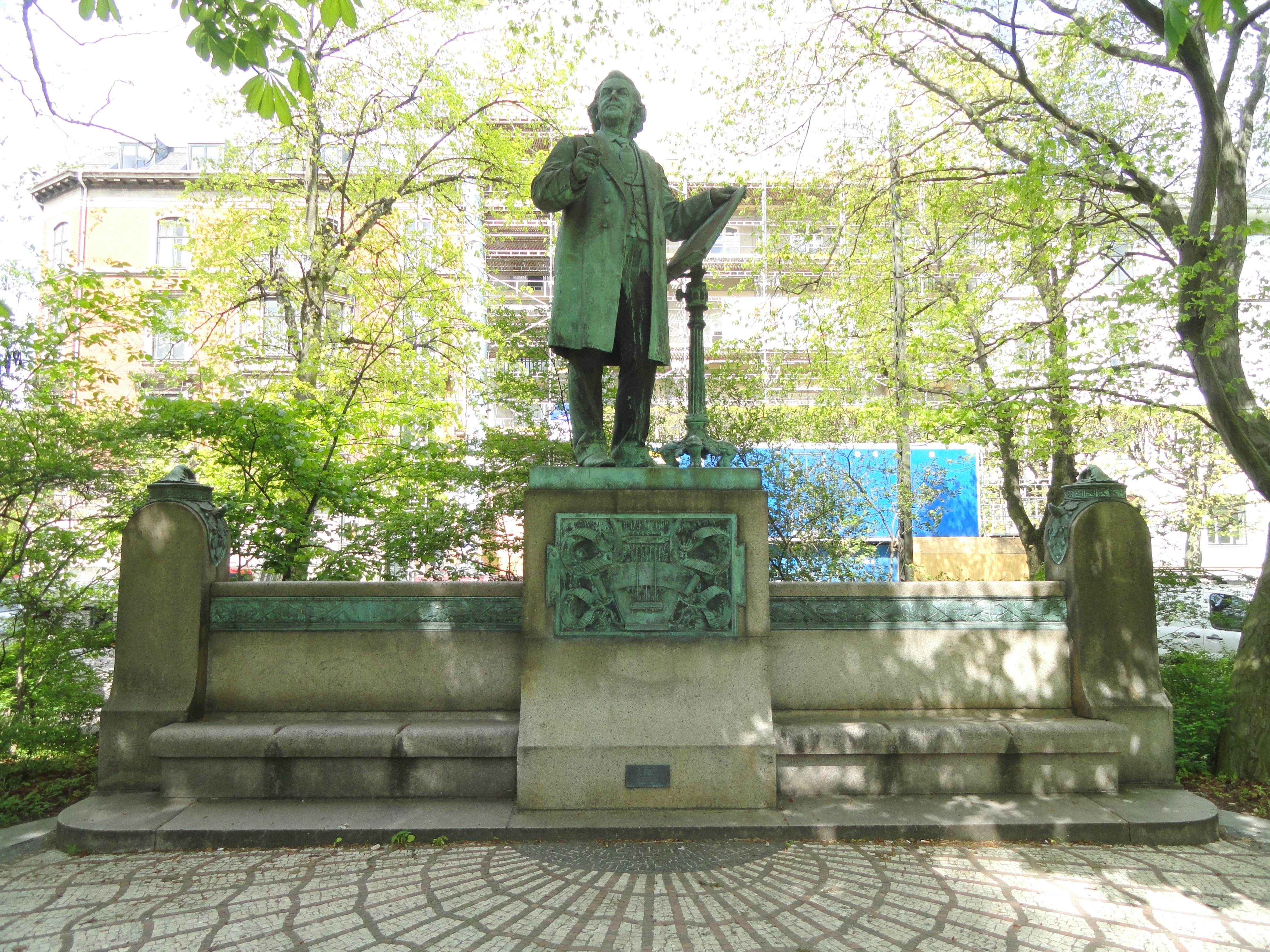 Niels Wilhelm Gade by Vilhelm Bissen (1836-1913), Copenhagen, Denmark. This sculpture is in the public domain because the sculptor died more than 70 years ago.